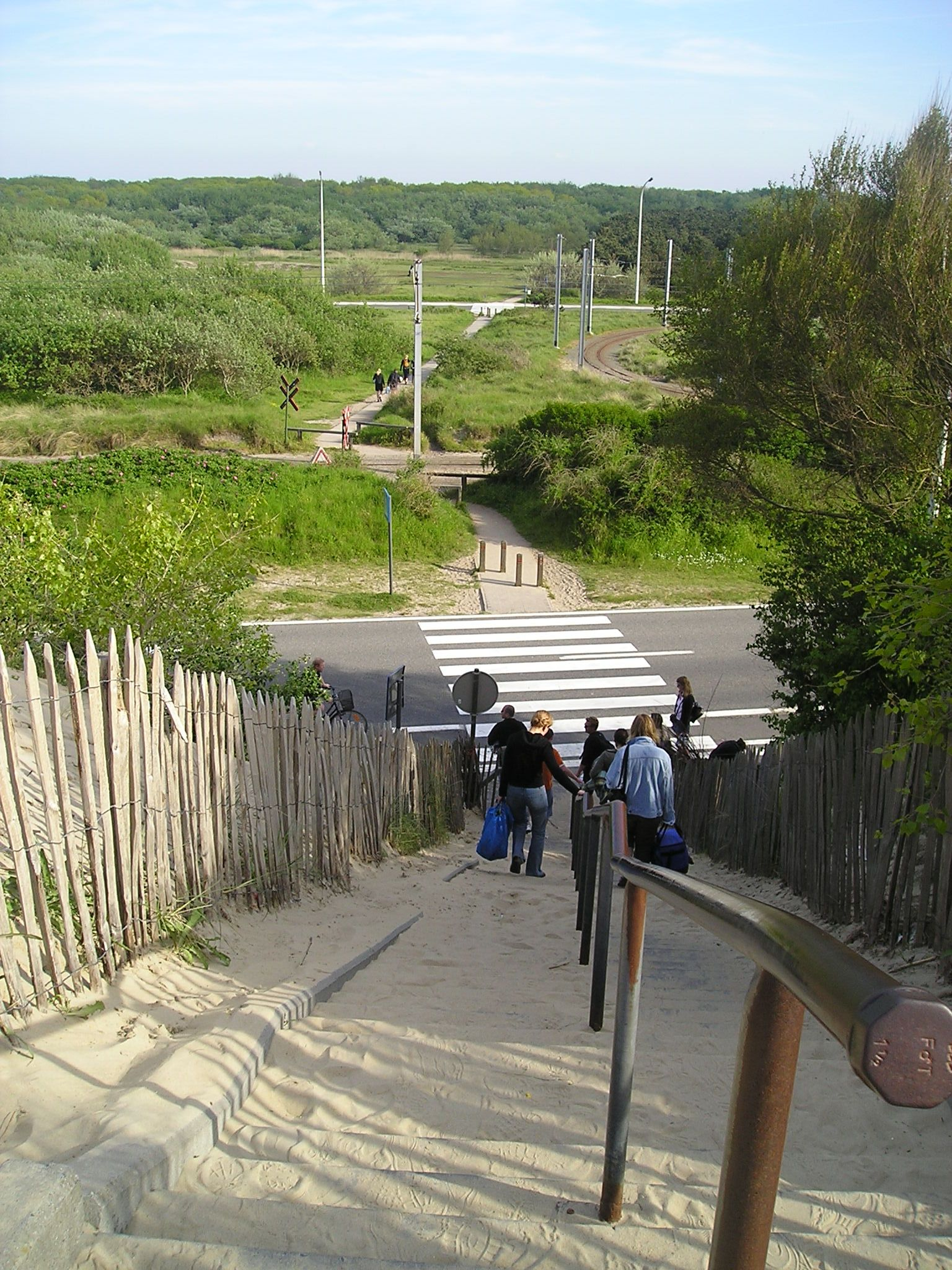 Dune area between De Haan and Wenduine (territory of Vlissegem)